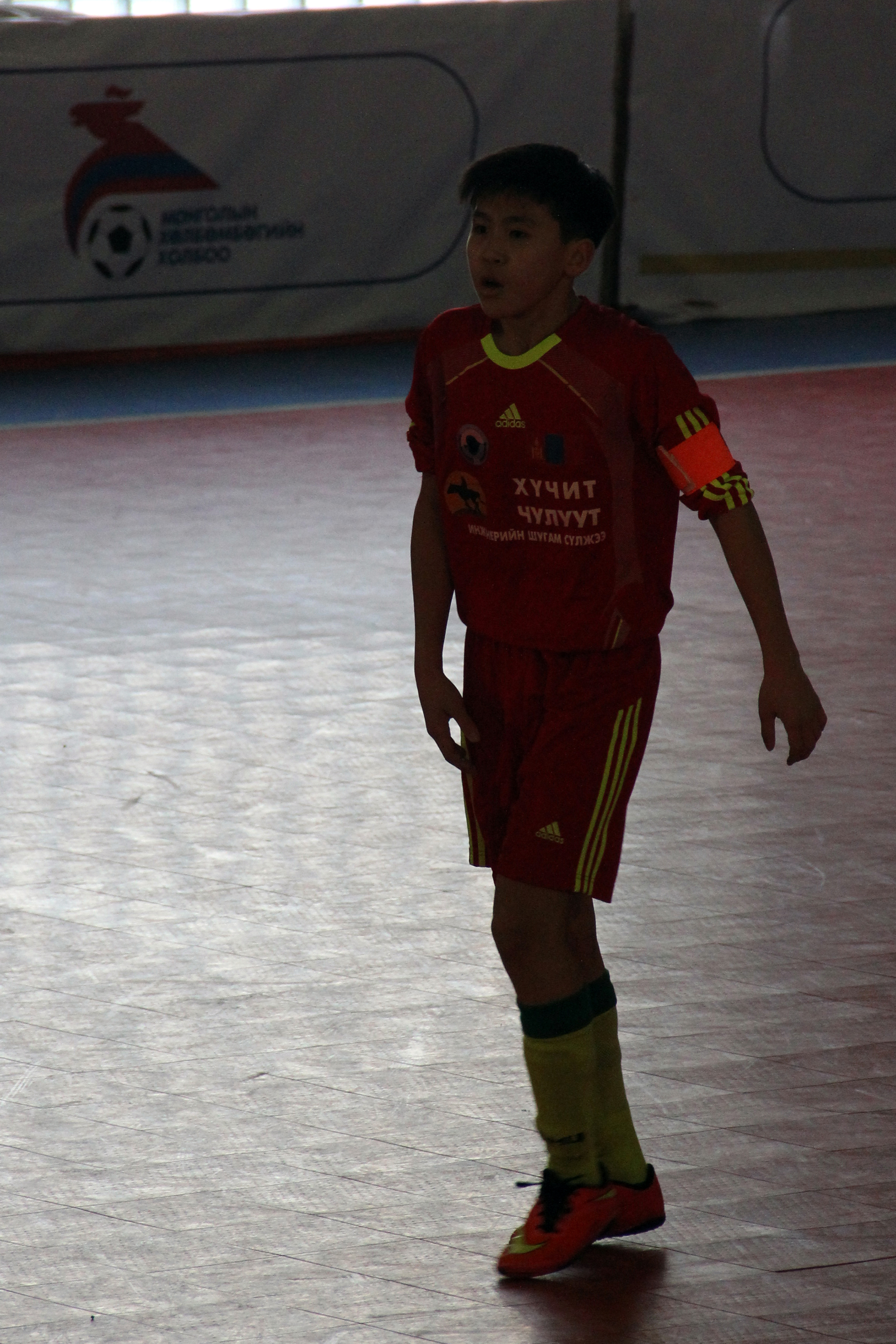 2015.02.07 Mongolian Futsal Championship U-15 (25)